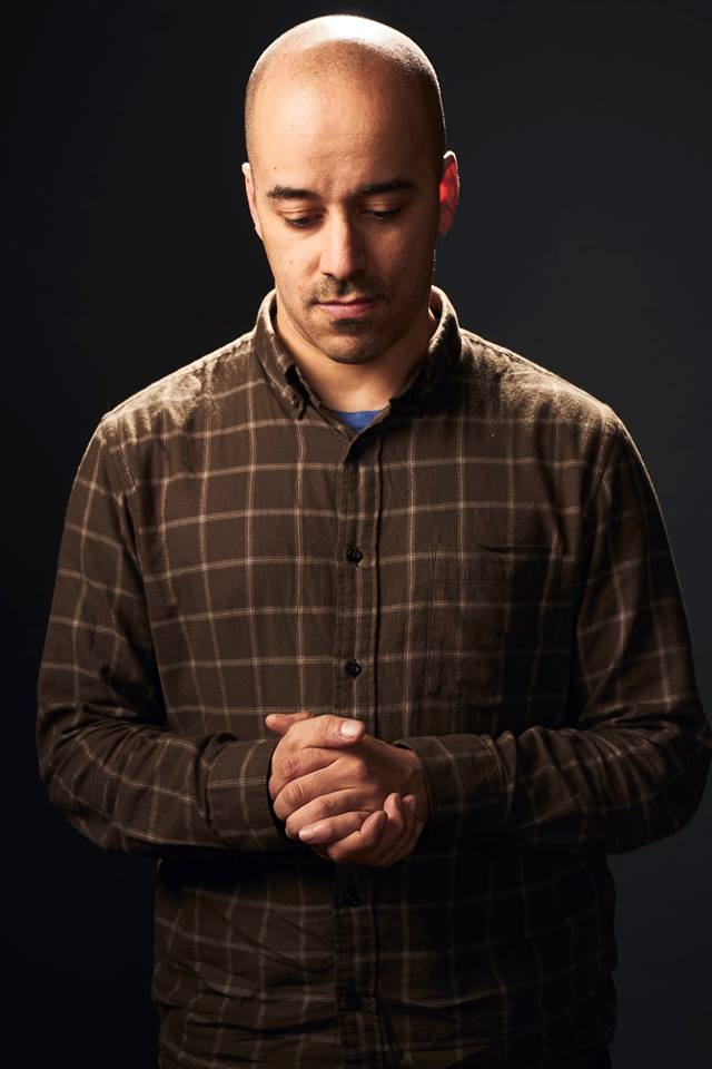 Jay Smooth, photographed by Chris McDuffie at the Giant Steps Conference in Minnesota